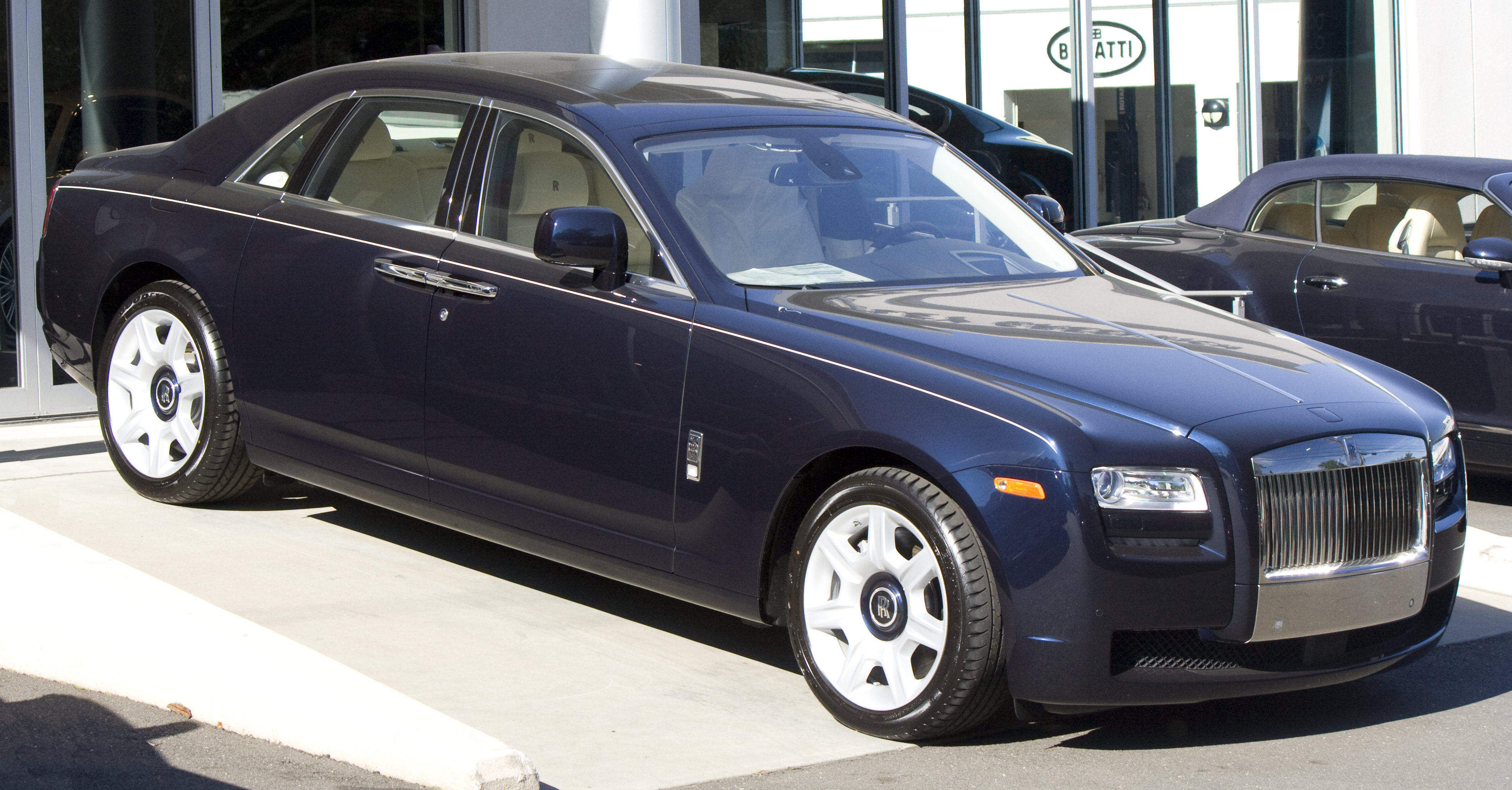 2012 Rolls-Royce Ghost